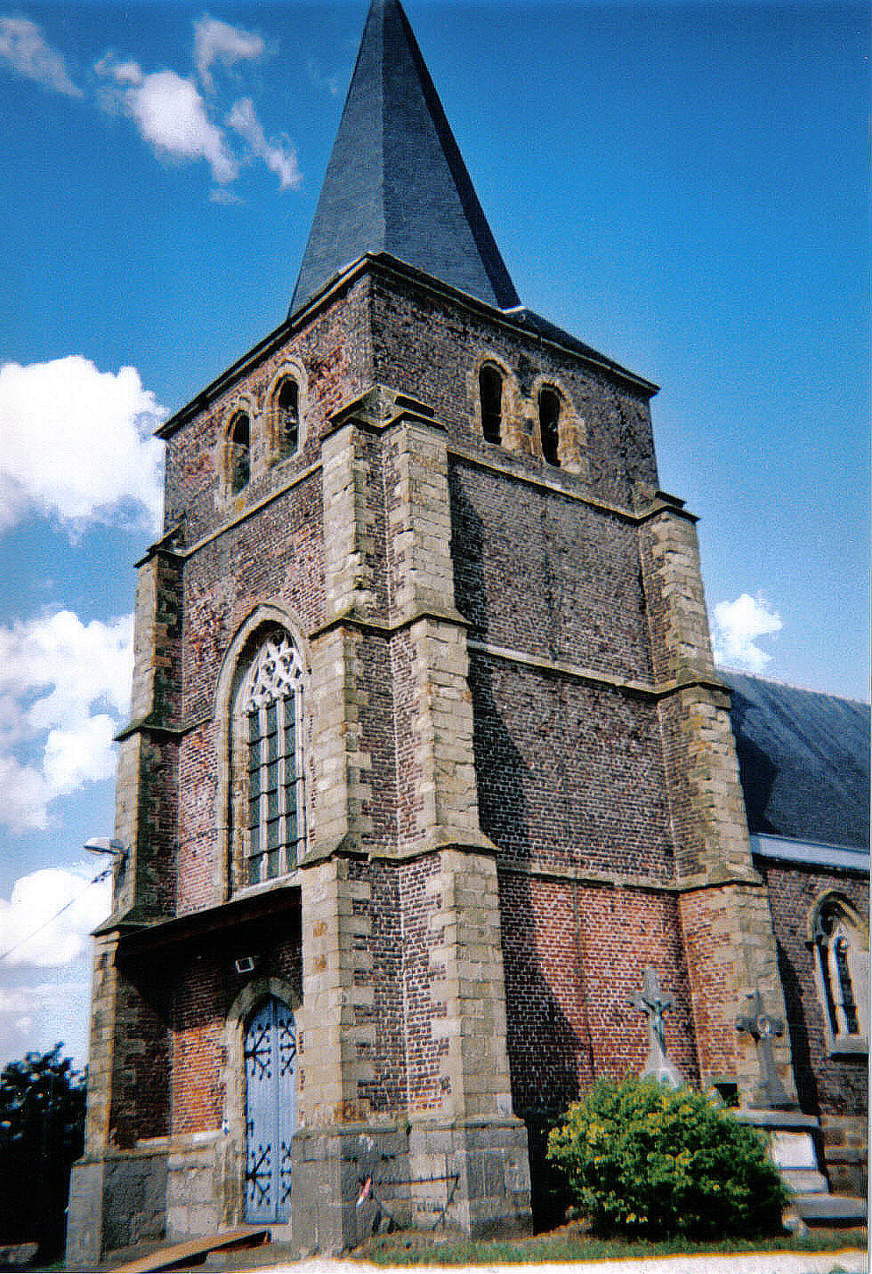 The village church of Edelare, a submunicipality of Oudenaarde, Belgium, lying on the slopes of Edelareberg.